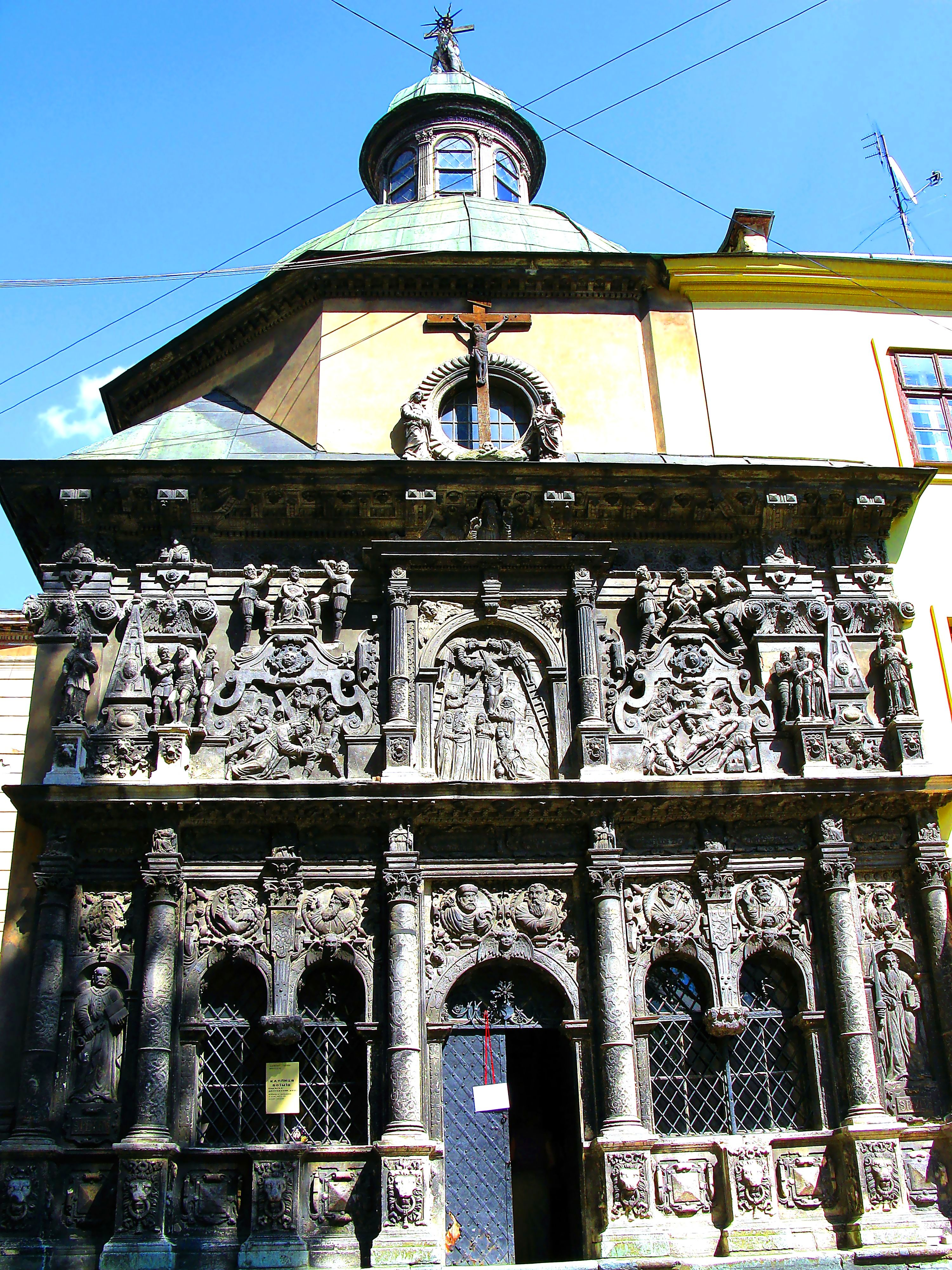 Chapel of Boim family in Lviv